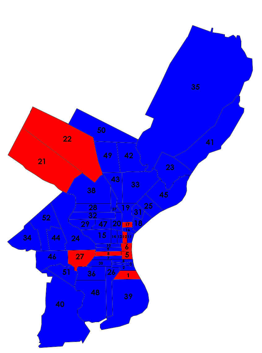 1955 Philadelphia mayor election by ward